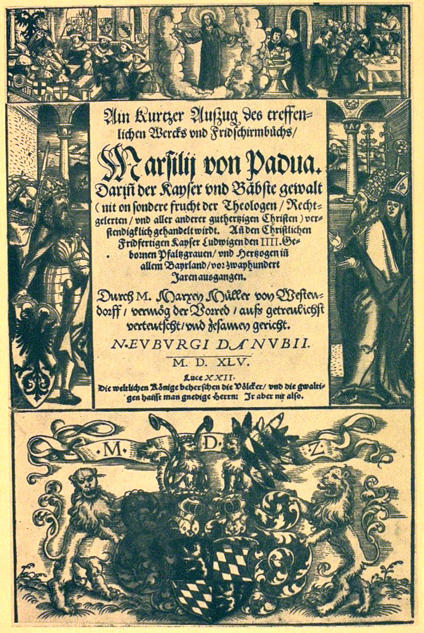 The title page of the German partial translation of the Defensor pacis printed at Neuburg.